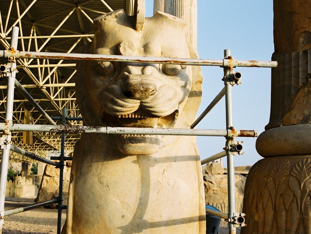 Stone capital representing a lion, fallen from a column of the Apadana palace when it was still in activity and never repaired, Persepolis, Iran.